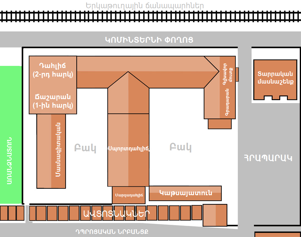 Plan of N 1 school of Beslan